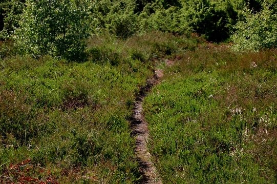 Small trail or path